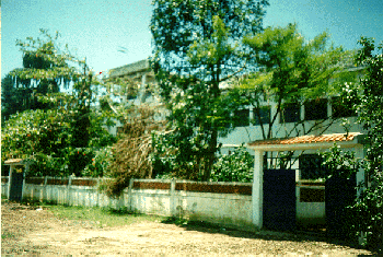 Left side view of the Joanna de Ângelis Spiritist School, a charitable school located in Japeri, Rio de Janeiro State, Brazil.